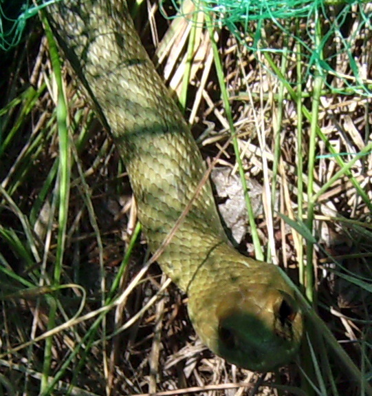 Head and part of the body from the snake Malpolon monspessulanus, Castelltallat, Catalonia